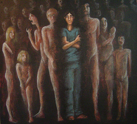 A psychological disorder know an DID